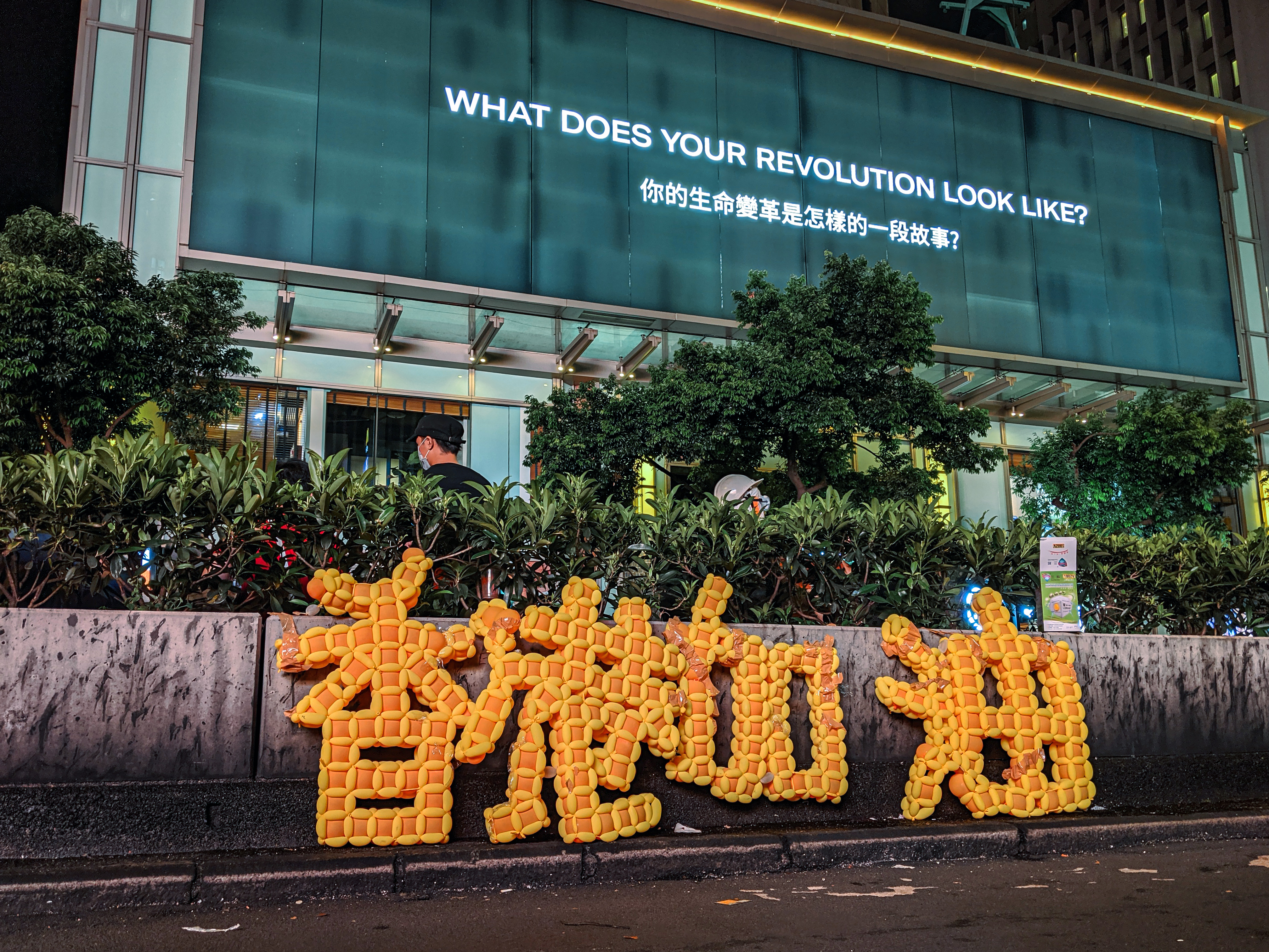 Protests in Hong Kong on 3 August, for the extradition bill and police excessive force.